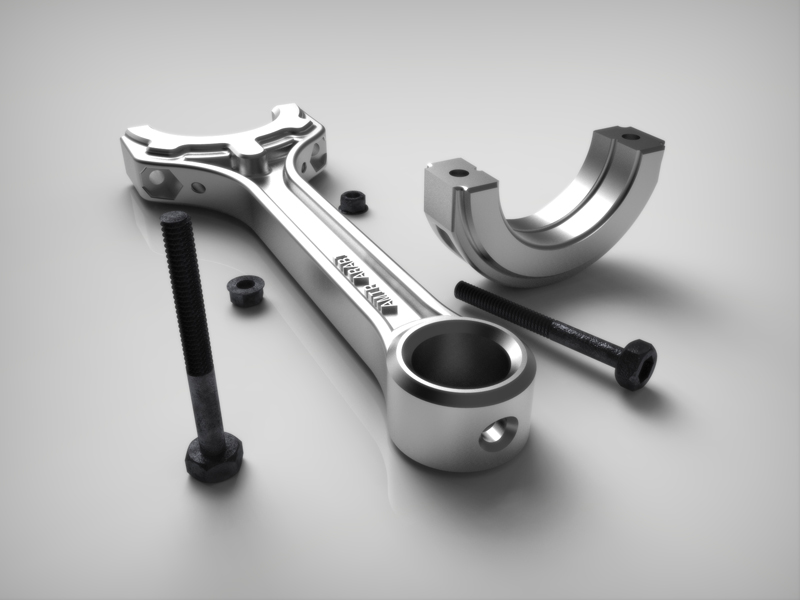 V8 engine part modeled in catia